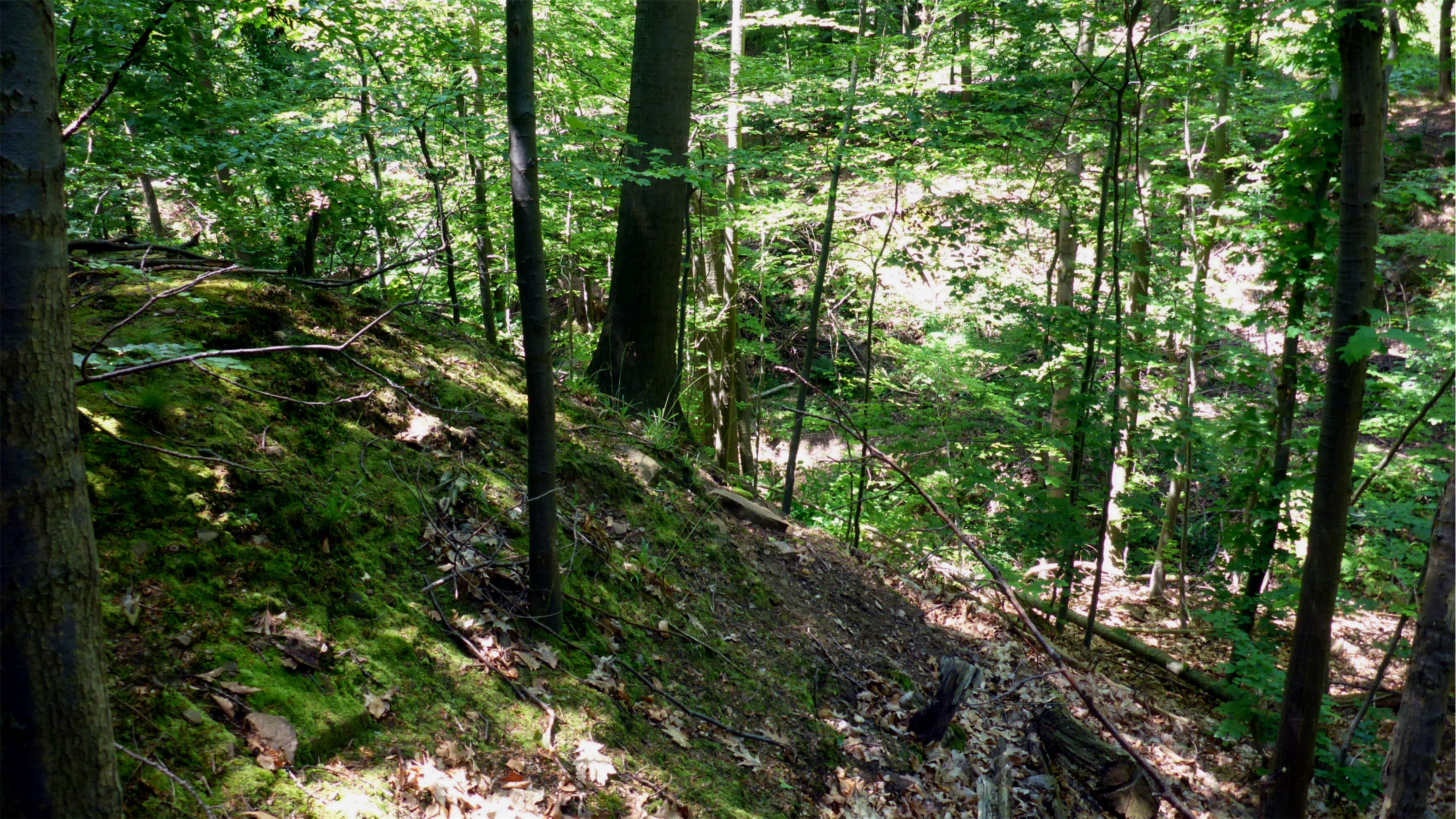 Naturschutzgebiet „Kälberklamm und Hasenklamm“ is a nature reserve in Baden-Württemberg, Germany.